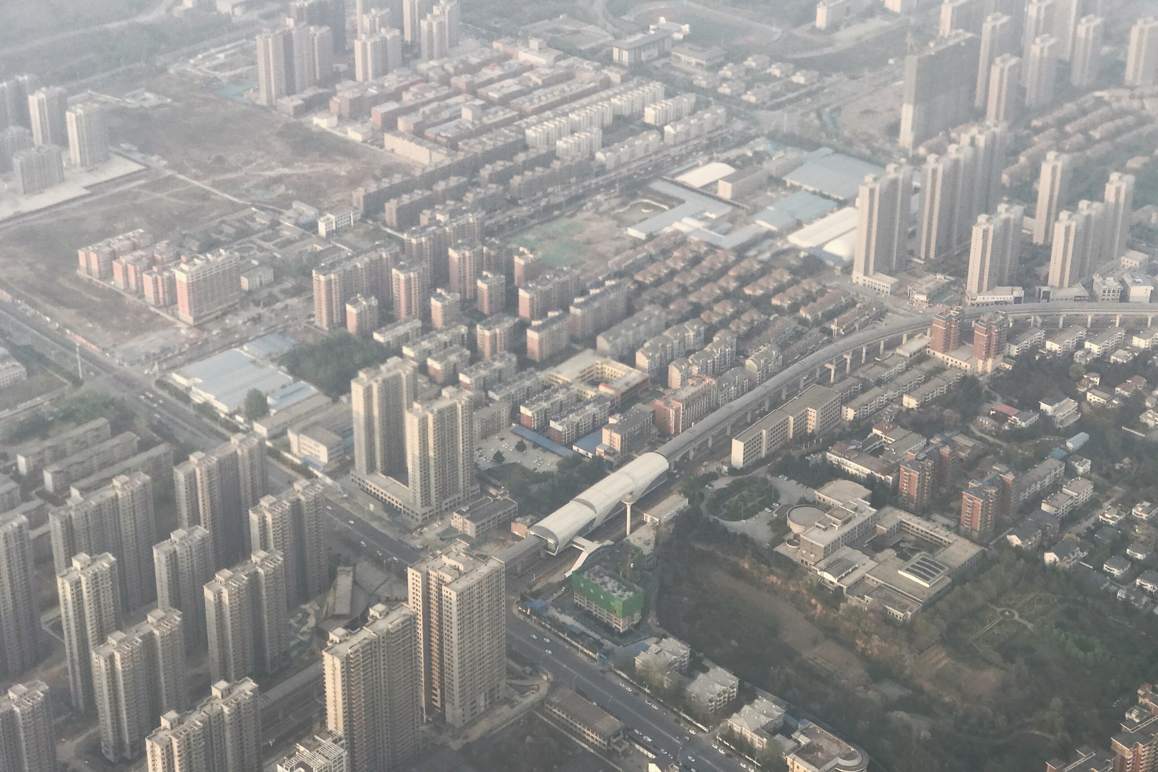 Aerial view of Longhu Town in Xinzheng, Zhengzhou. The Zhengzhou Metro Chengjiao Line with the unopened Xiaoqiao Station can be seen.